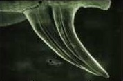 Tooth of the Brown tree snake (Boiga irregularis) with grooves to inject venom